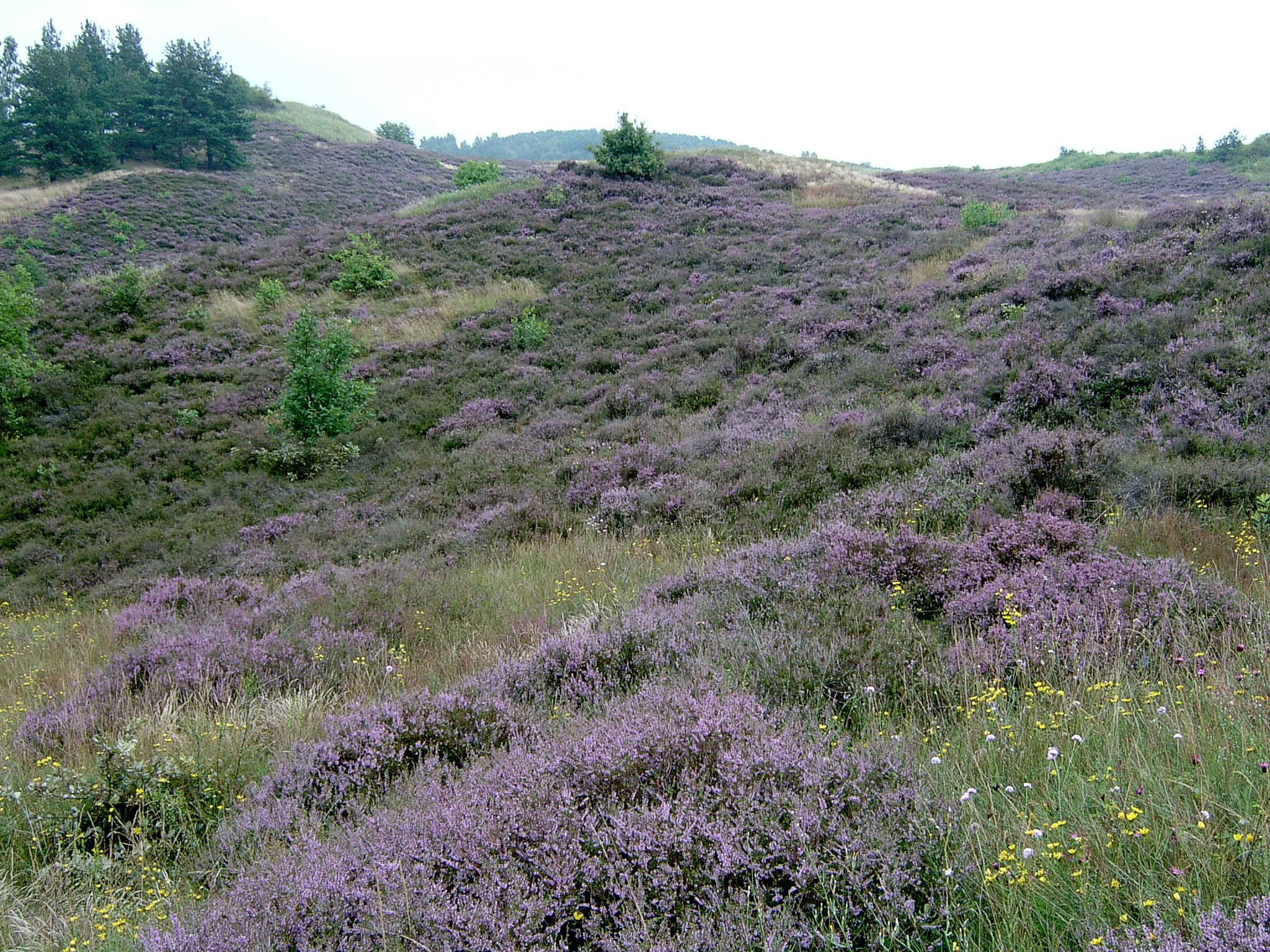 Heather in Nature Reserve Wrzosowiska Cedyńskie near Cedynia NW Poland